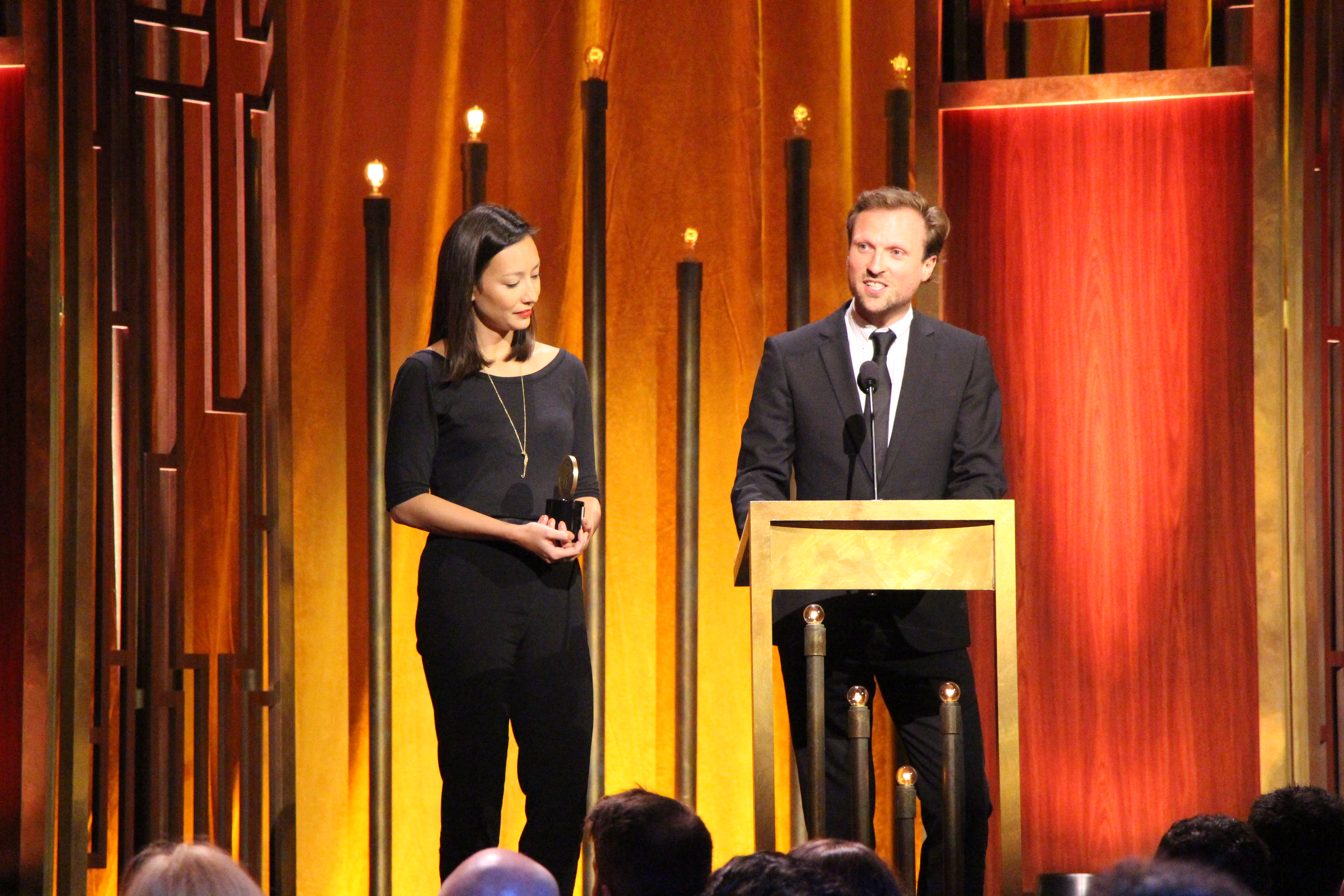 Producer Joanna Natasegara and Director Orlando von Einsiedel accept the Peabody Award for Virunga. Cipriani Wall Street